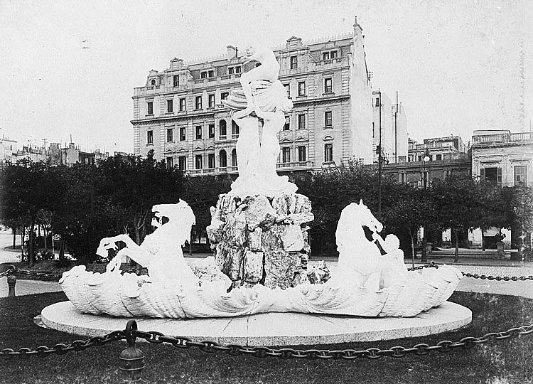 Buenos Aires. Fuente Las Nereidas - Lola Mora - en su ubicación primitiva, principios del siglo XX.